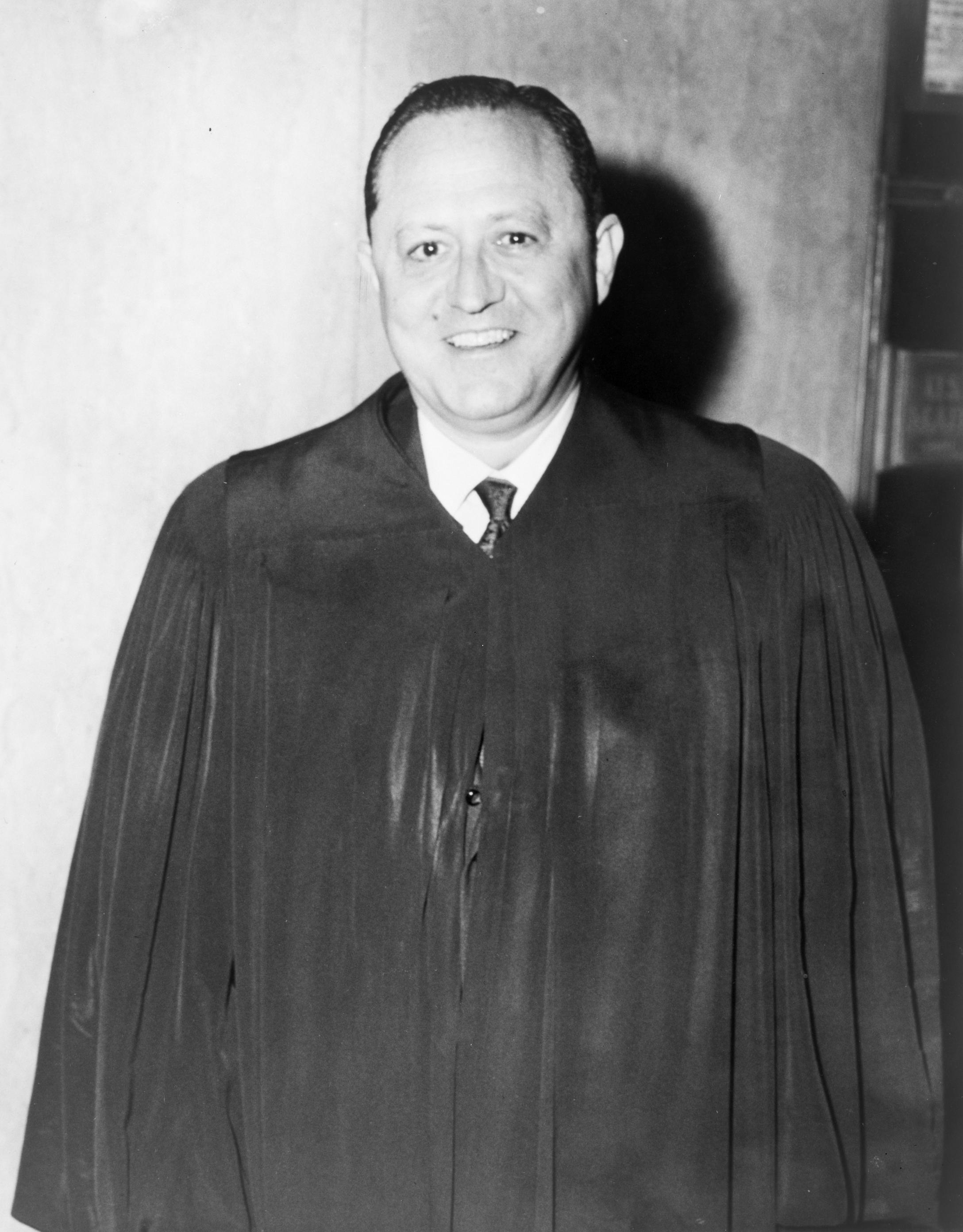 Irwin Delmore Davidson, American judge & congressman